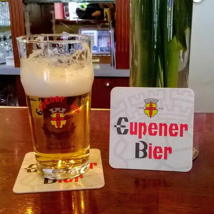 A glass of Eupener Bier, Eupen, Belgium check usage